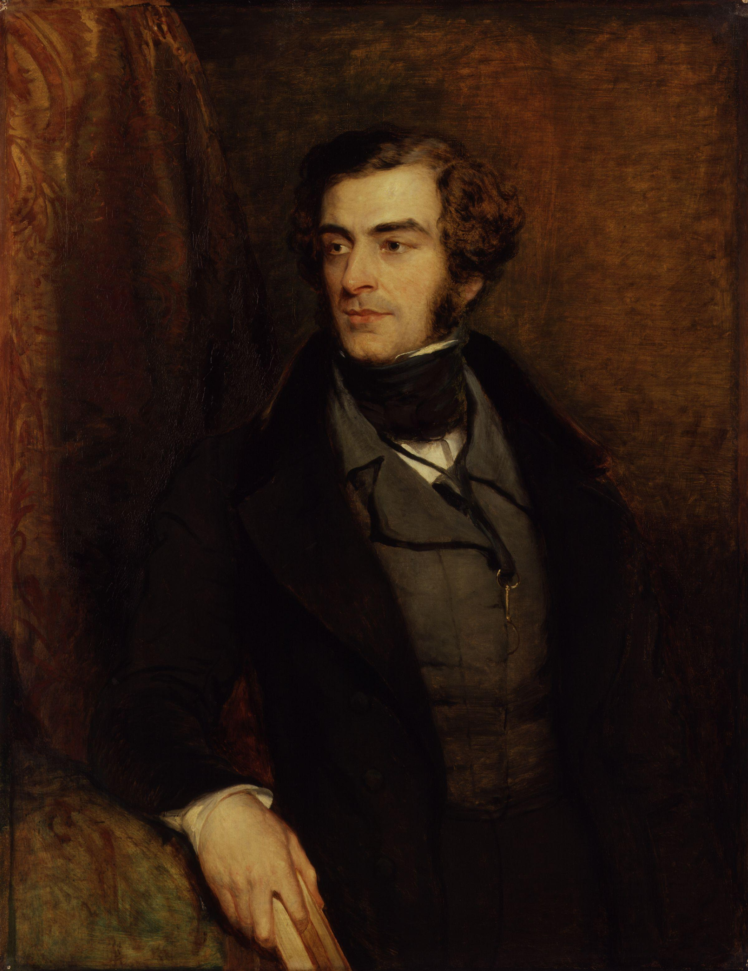 Samuel Warren, by John Linnell (died 1882). All images in this batch have been confirmed as author died before 1939 according to the official death date listed by the NPG.